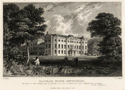 Saltram House c. 1832. From Devonshire & Cornwall illustrated from original drawings by Thomas Allom, W.H. Bartlett, &c, by J.Britton & E.W.Brayley (London: H.Fisher, R.Fisher & P.Jackson, 1832).